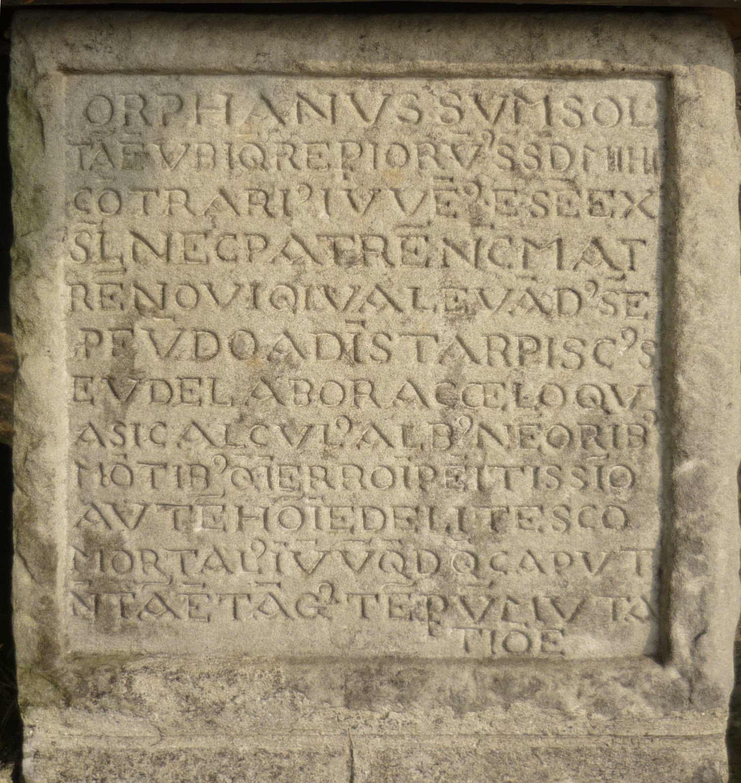 photograph of Latin inscription at the Bollingen "Tower" of C.G. Jung; the inscription itself dates to 1950. The inscription content is alchemical, translating to approximately "I am an orphan, alone yet encountered everywhere, single yet opposed to myself, young and old at the same time, neither father nor mother did I know, for I am to be raised from the depth in likeness of the Fish, or I descend from heaven like the White Stone, through groves and mountains do I wander, yet I hide in innermost man, am mortal within every single head, and still am not touched by the changing of the seasons." The speaker is the lapis philosophorum, among whose many allegories are Piscis (the astrological sign) and calculus albus "white stone". "I am mortal within every head (i.e. individual)" is from Horace, Letters II.2.187f. in reference to the divine genius which is "mortal for (in the case of) each individual"[1]